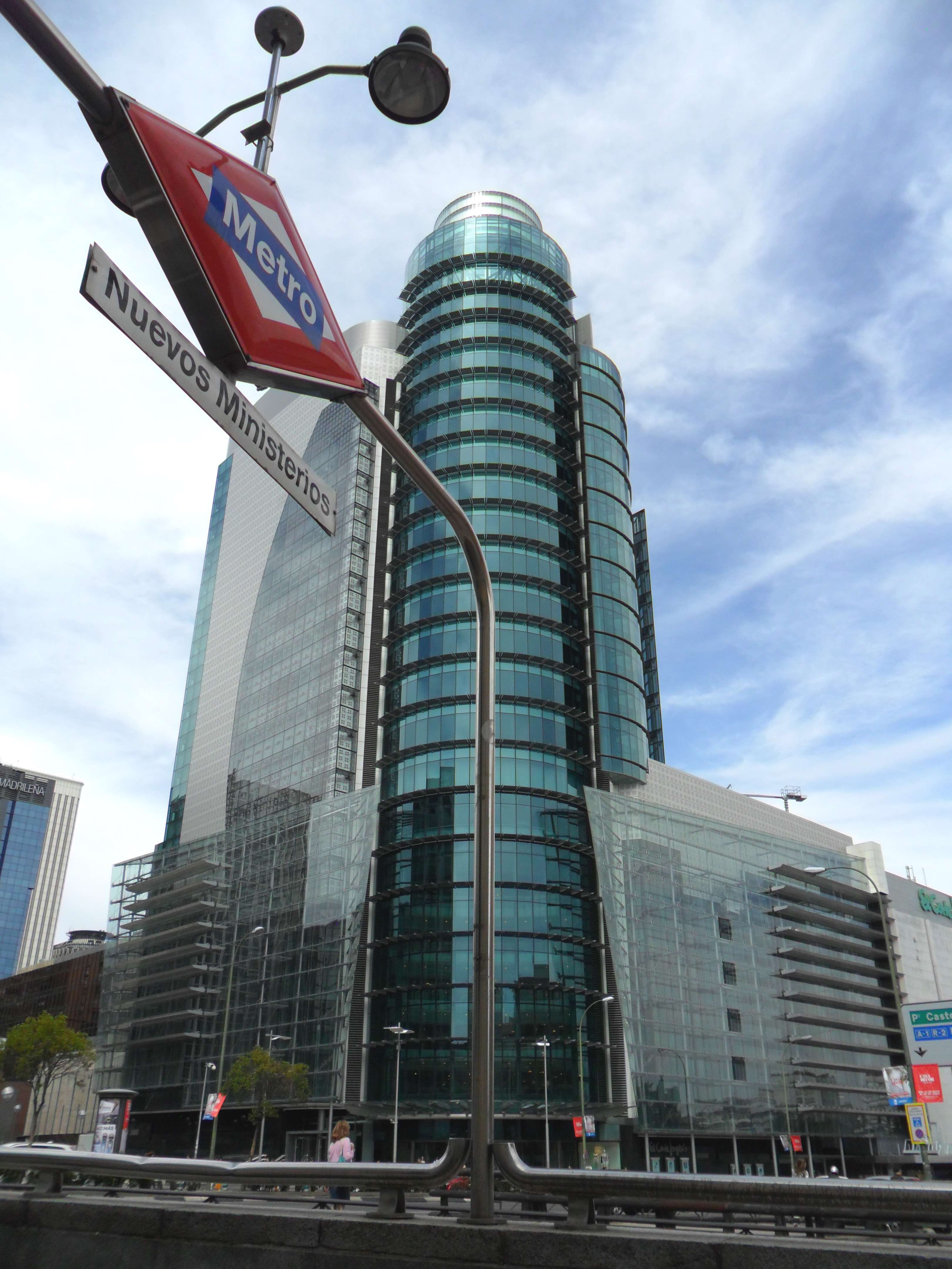 Entrance of Nuevos Ministerios metro station in Madrid (Spain). Background: Torre Titania.